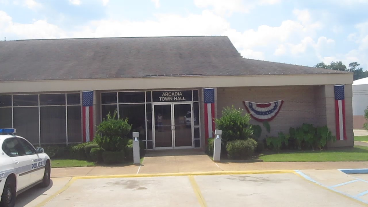 Arcadia, LA, Town Hall